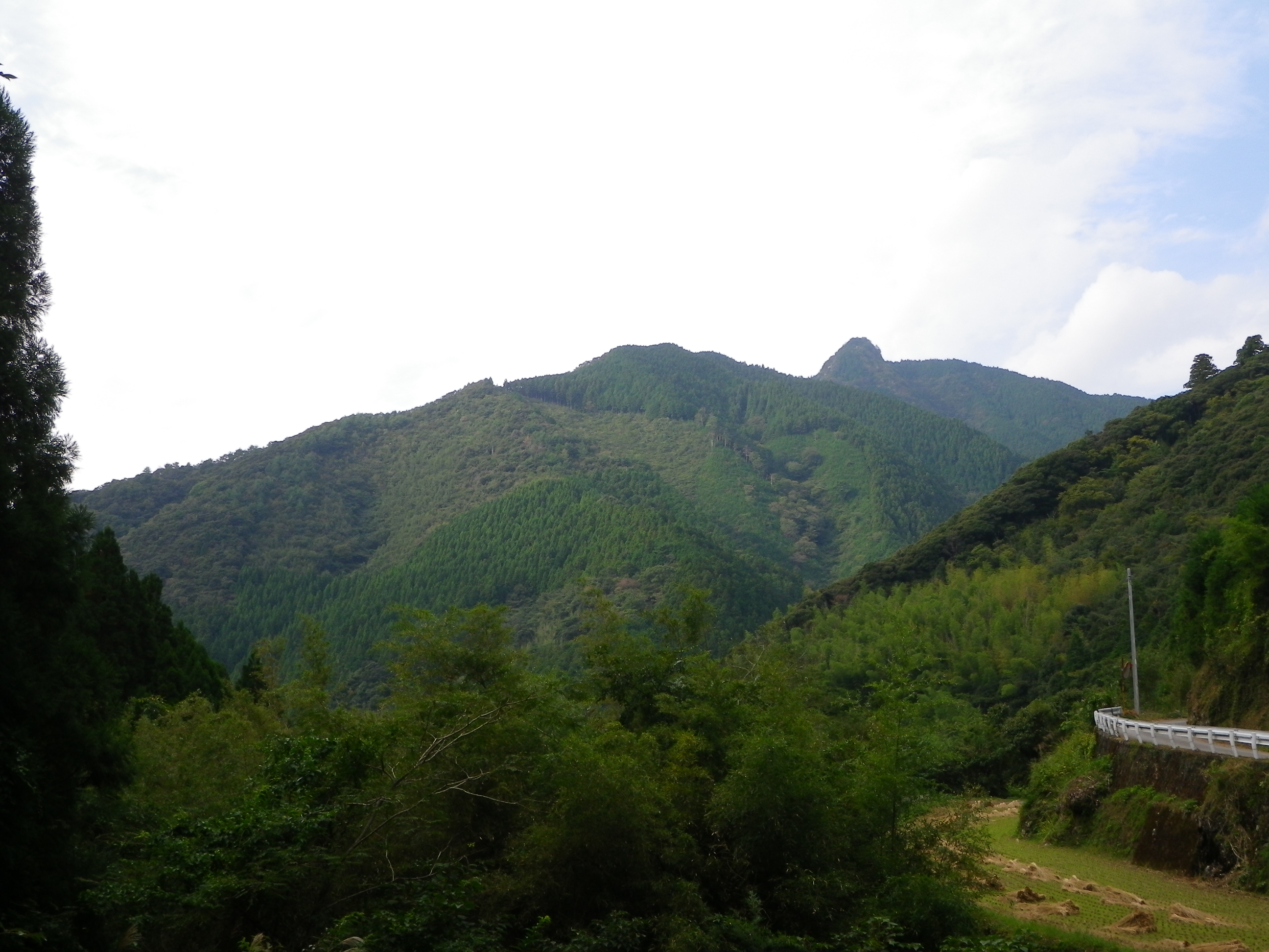 Mt.Sekko (Sekko-zan) as seen from the ENE in Kochi, Kochi Prefecture, Japan. A.k.a. Mount Kunimi (Kunimi-yama).